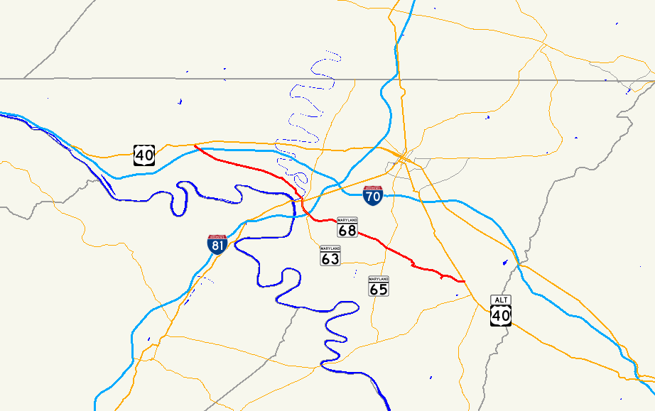 Map of Maryland Route 68